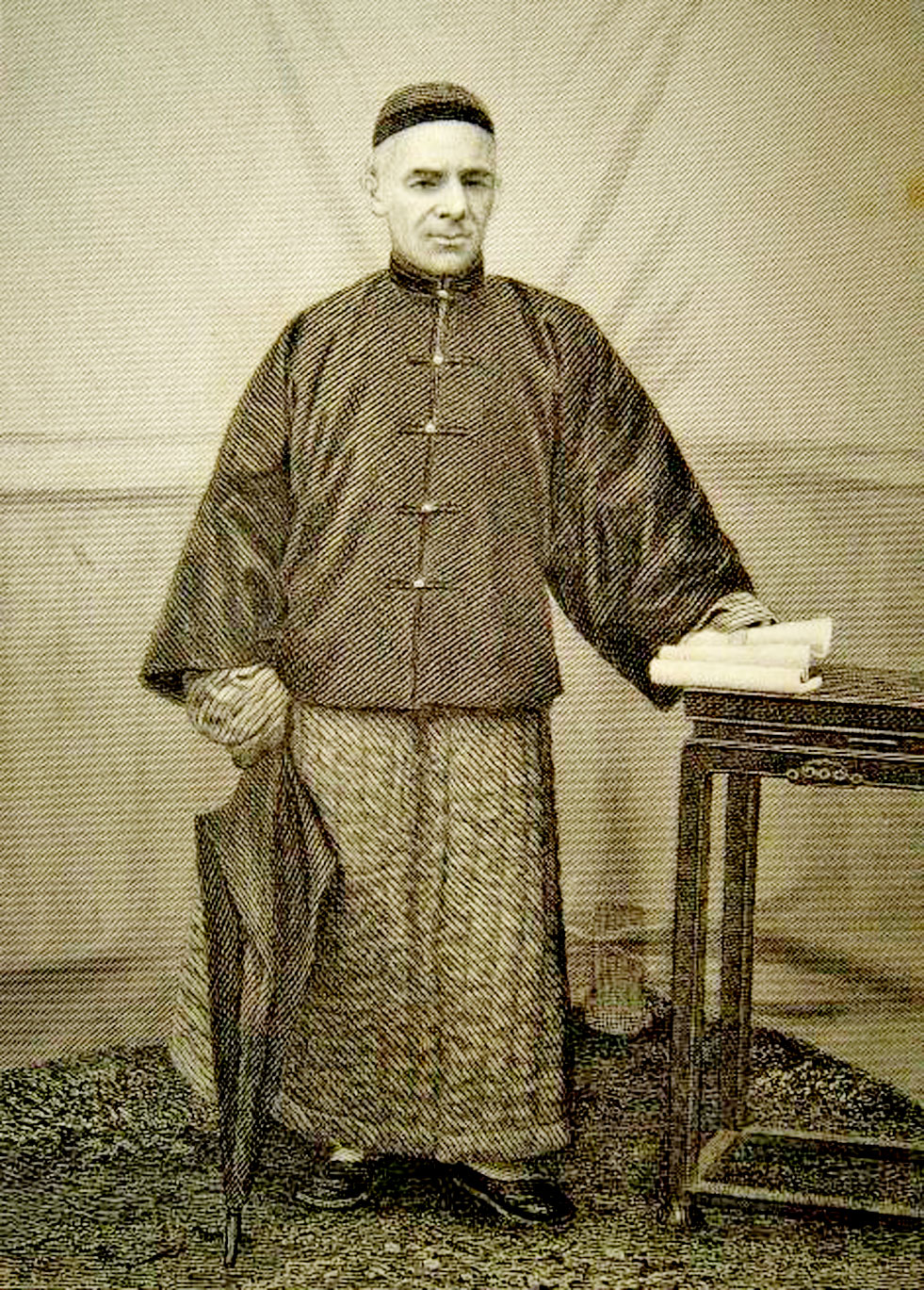 From Burns, Islay; Memoir of the Rev. William Chalmers Burns. Missionary to China from the English Presbyterian Church; London. James Nisbet & Co. 1870